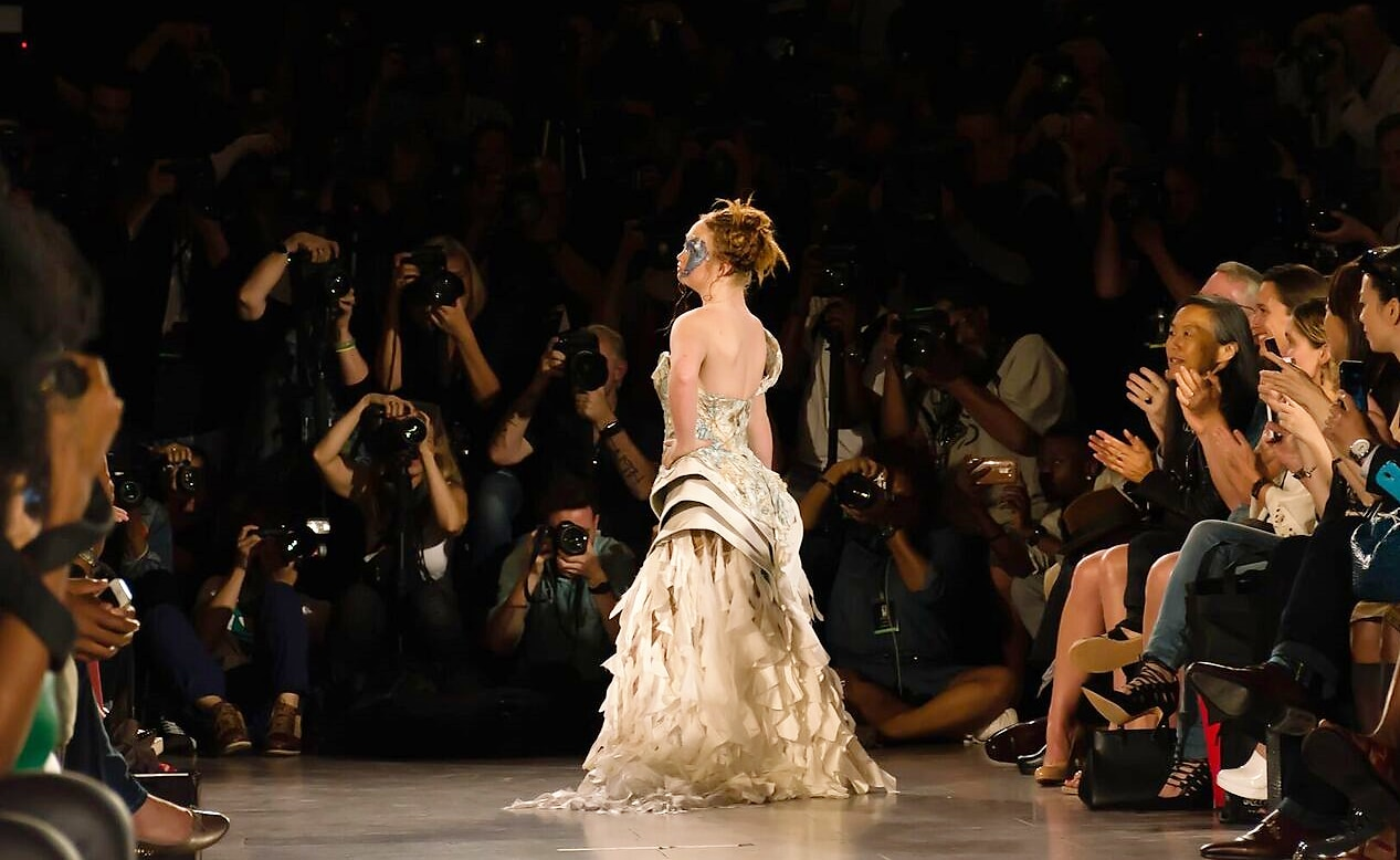 Madeline Stuart wearing Hendrik Vermeulen on FTL Moda runway - NYFW, Vanderbilt Hall, Grand Central NYC - Photo: Erica Nichols